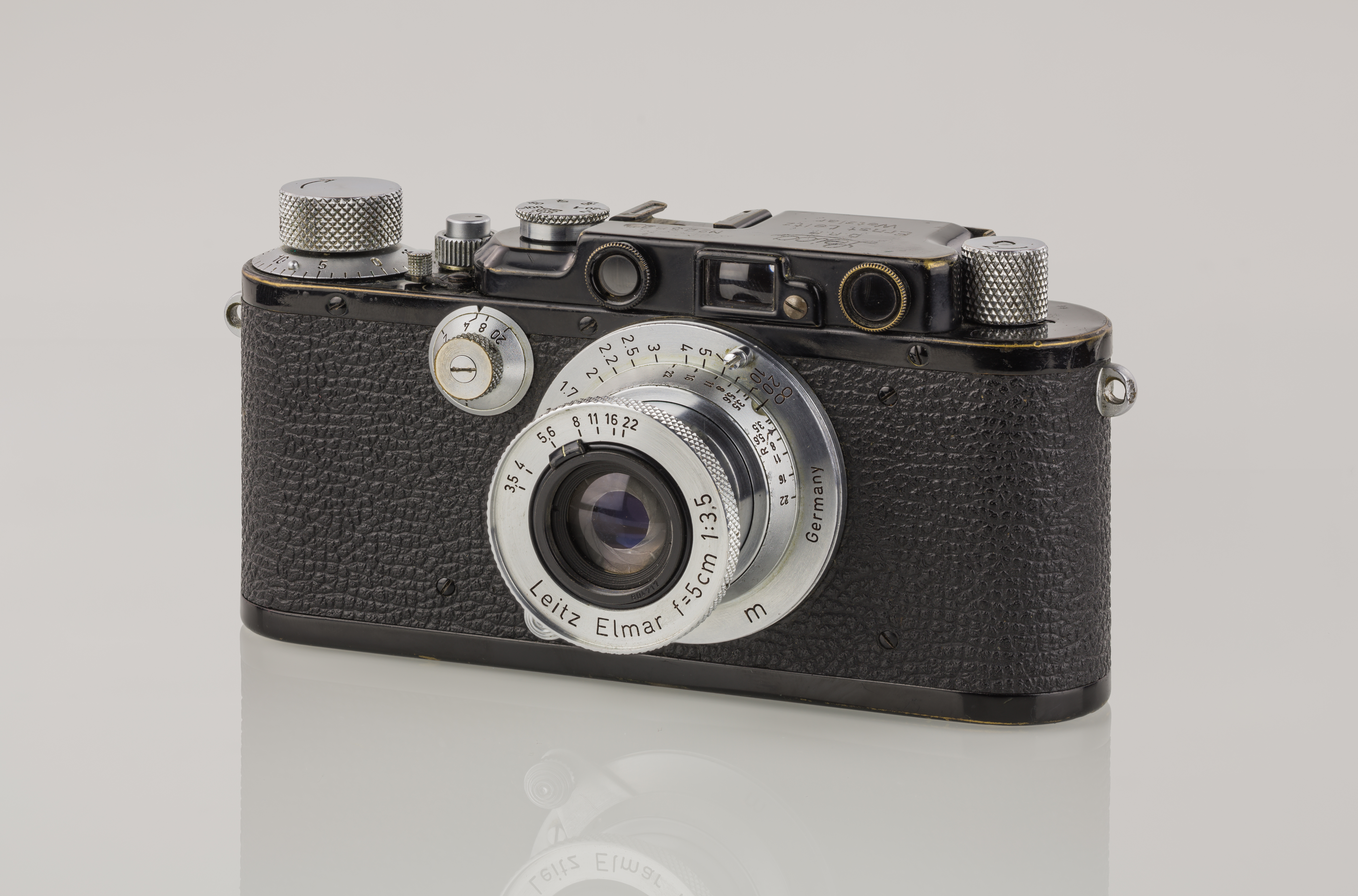 Leica III black, this Model was a rekonstruction of the Leica I. Serialnumber 25629, year of production 1930, M39 . Leitz Elmar, f/5cm, 1:3.5